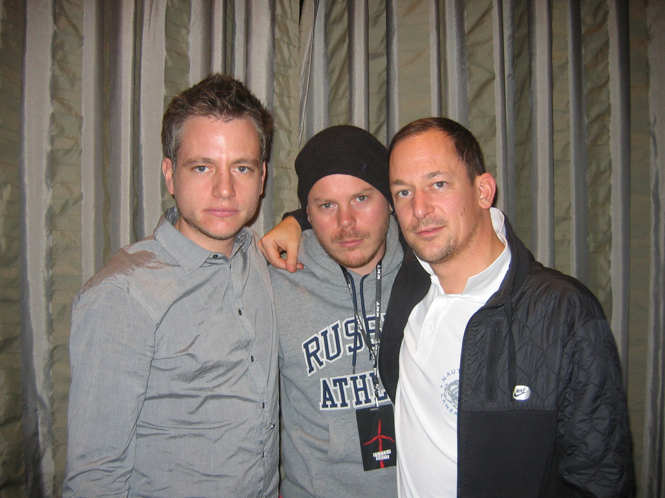 The German hip hop band Fettes Brot before their concert in Göttingen on 19th November 2008. From left to right: Dokter Renz (Martin Vandreier), König Boris (Boris Lauterbach), Björn Beton (Björn Warns)